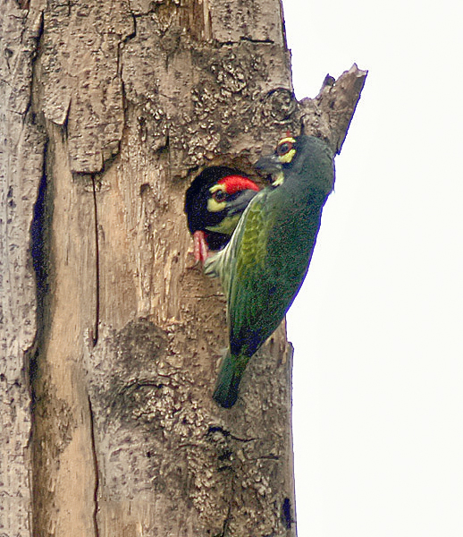 Coppersmith Barbet Megalaima haemacephala in Kolkata, West Bengal, India.